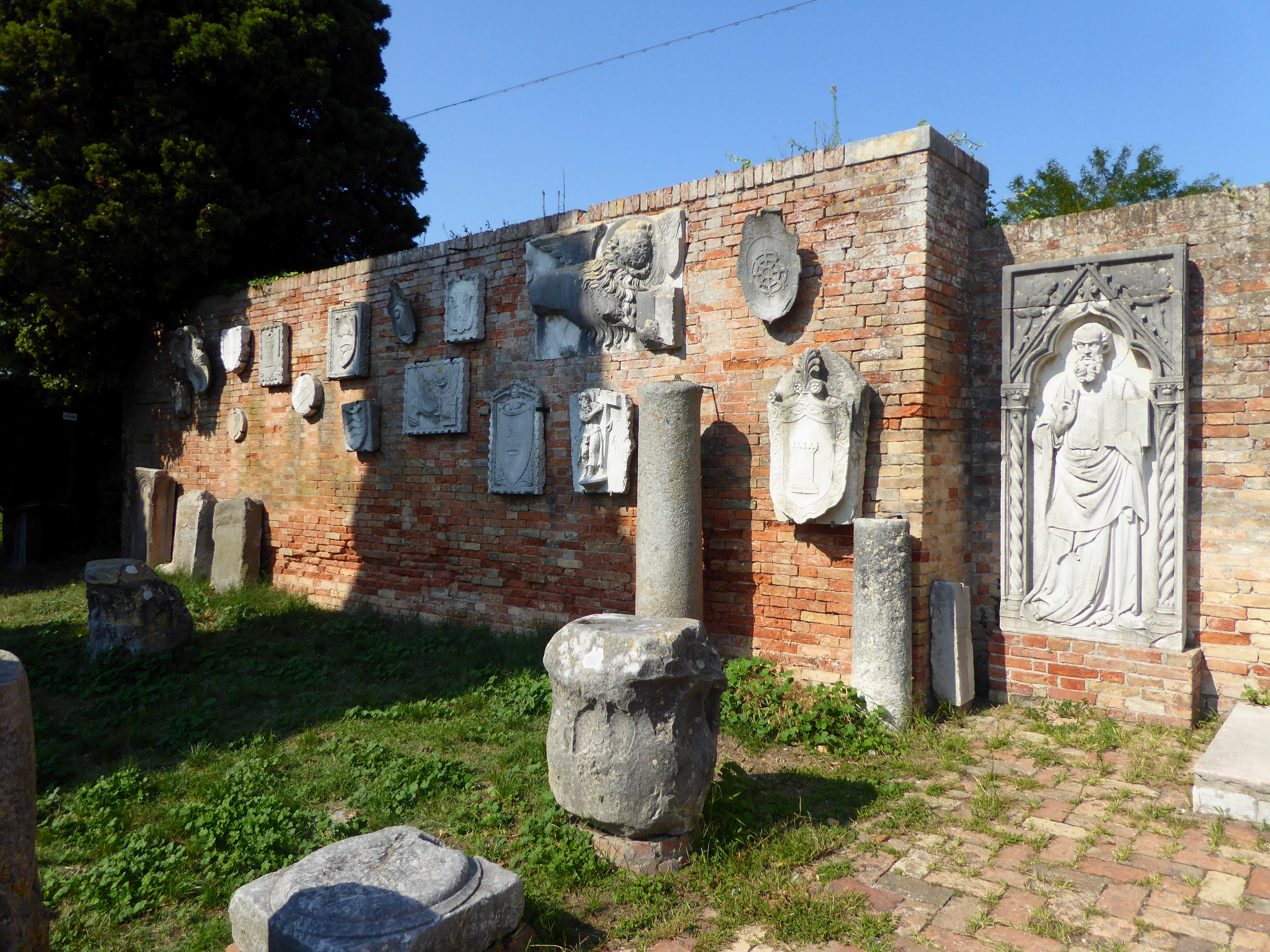 Various archaeological artefacts on display outside the Museo Provinciale di Torcello on Torcello, near to Torcello Cathedral.